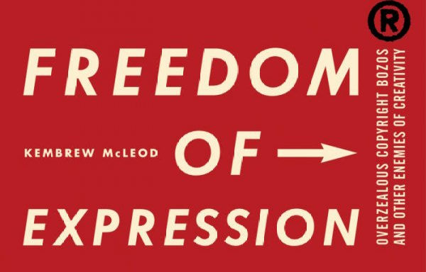 The first-edition front cover of the book Freedom of Expression.